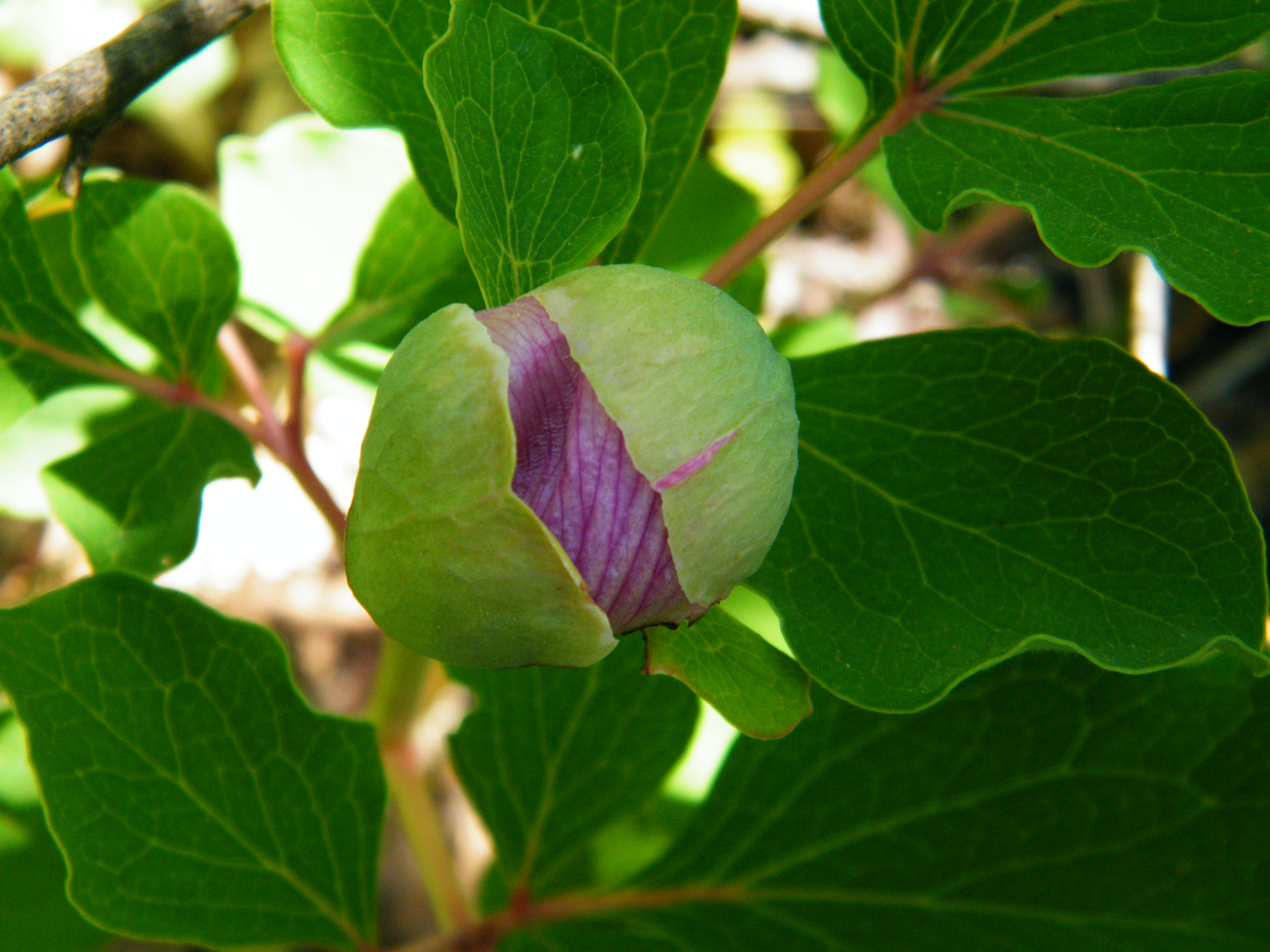 Paeonia daurica in Laspi Bay